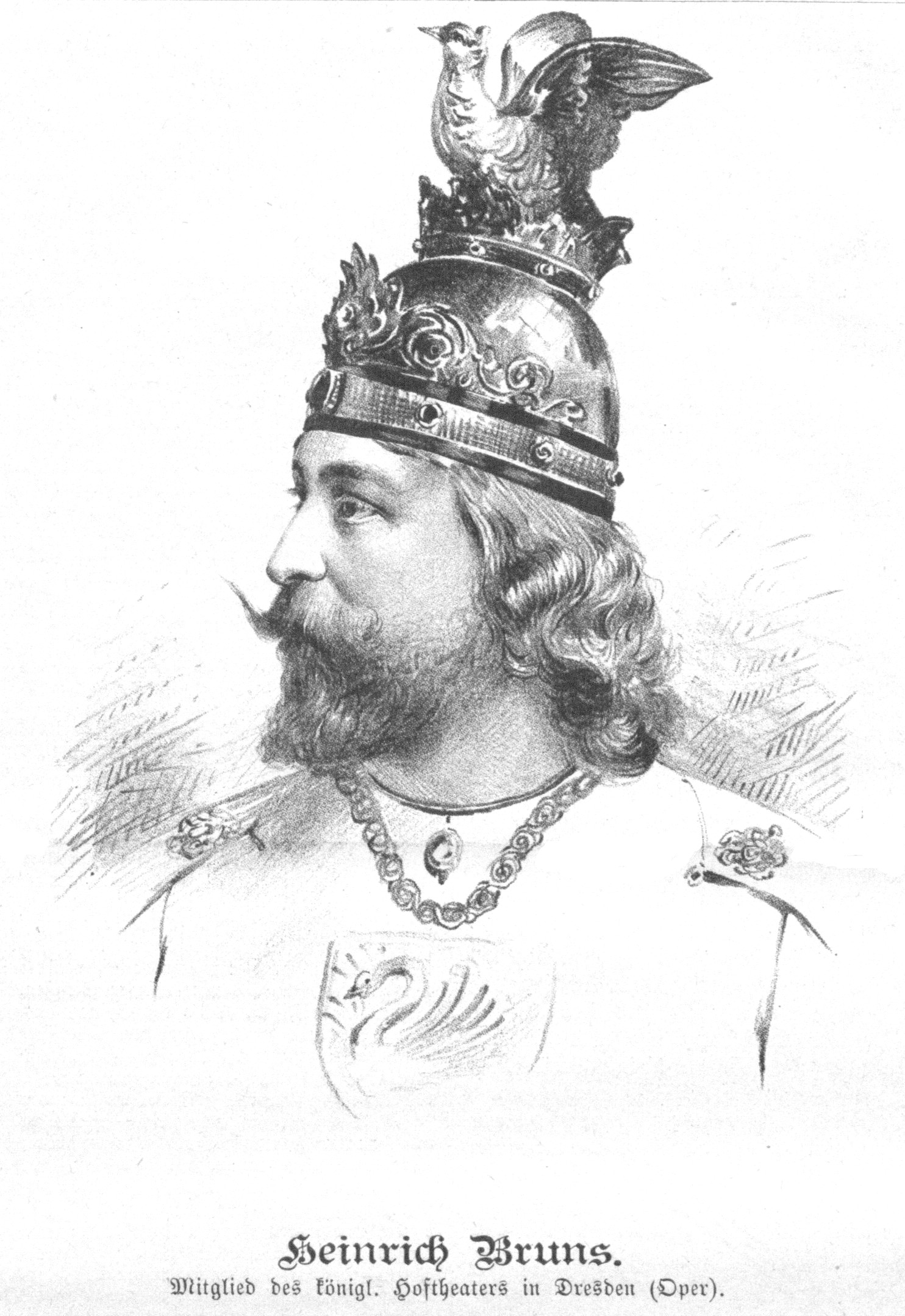 Portrait of Heinrich Bruns (1867-1914), German actor and opera singer.